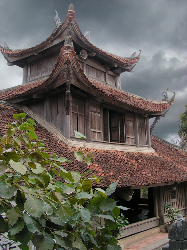 But Thap Pagoda, Bac Ninh Province, Vietnam.